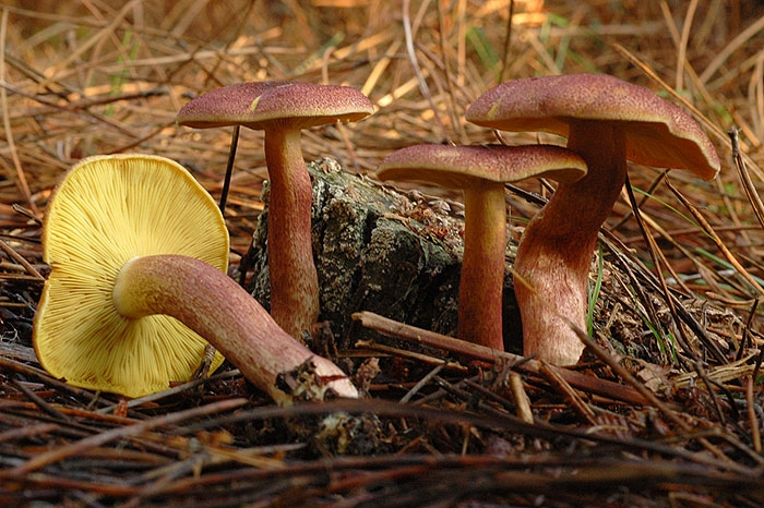 Tricholomopsis rutilans, Pine woods, Galicia/Northern Spain